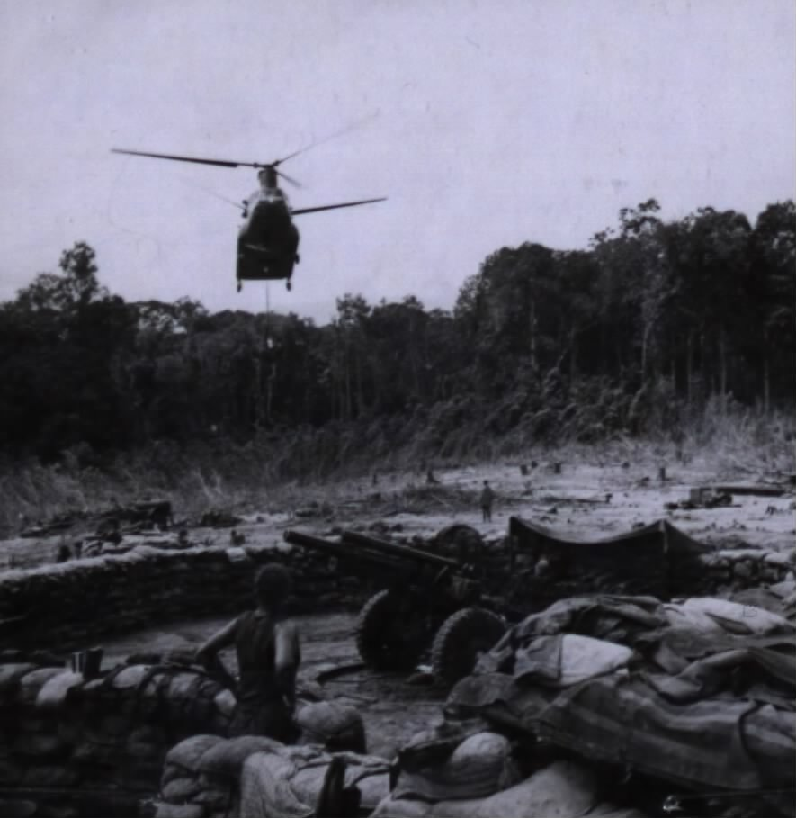 Operation Francis Marion a CH-47 Chinook helicopter flies over a 105mm howitzer gun emplacement during resupply operations for elements of the 1st Battalion, 12th Regiment, 2nd Brigade, 4th Infantry Division.